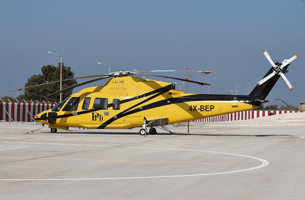 4X-BEP at Haifa Airort